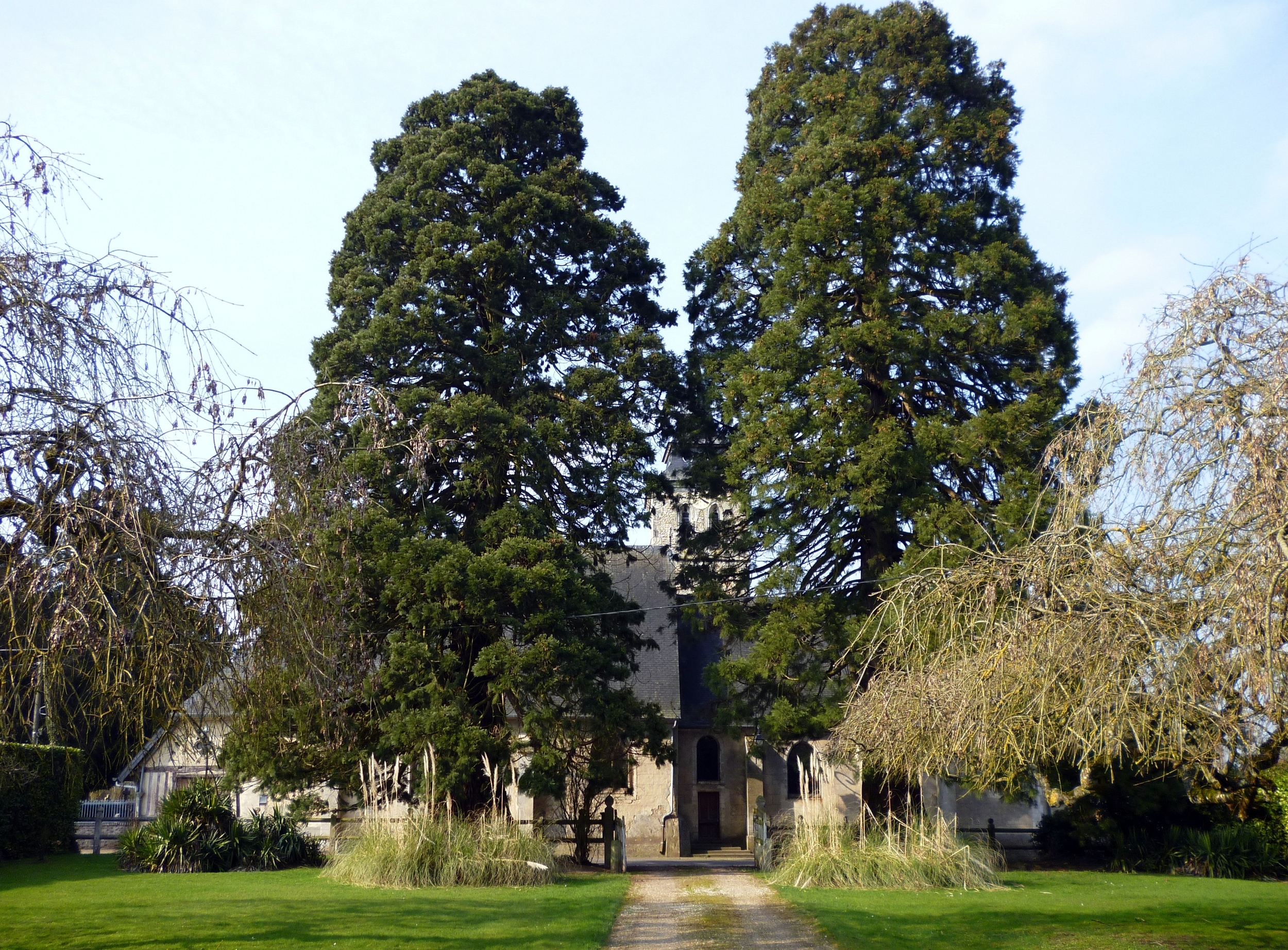 The two huge sequoia-trees on the property of the manor house of Berthouville (Eure, France) and behind them the church.